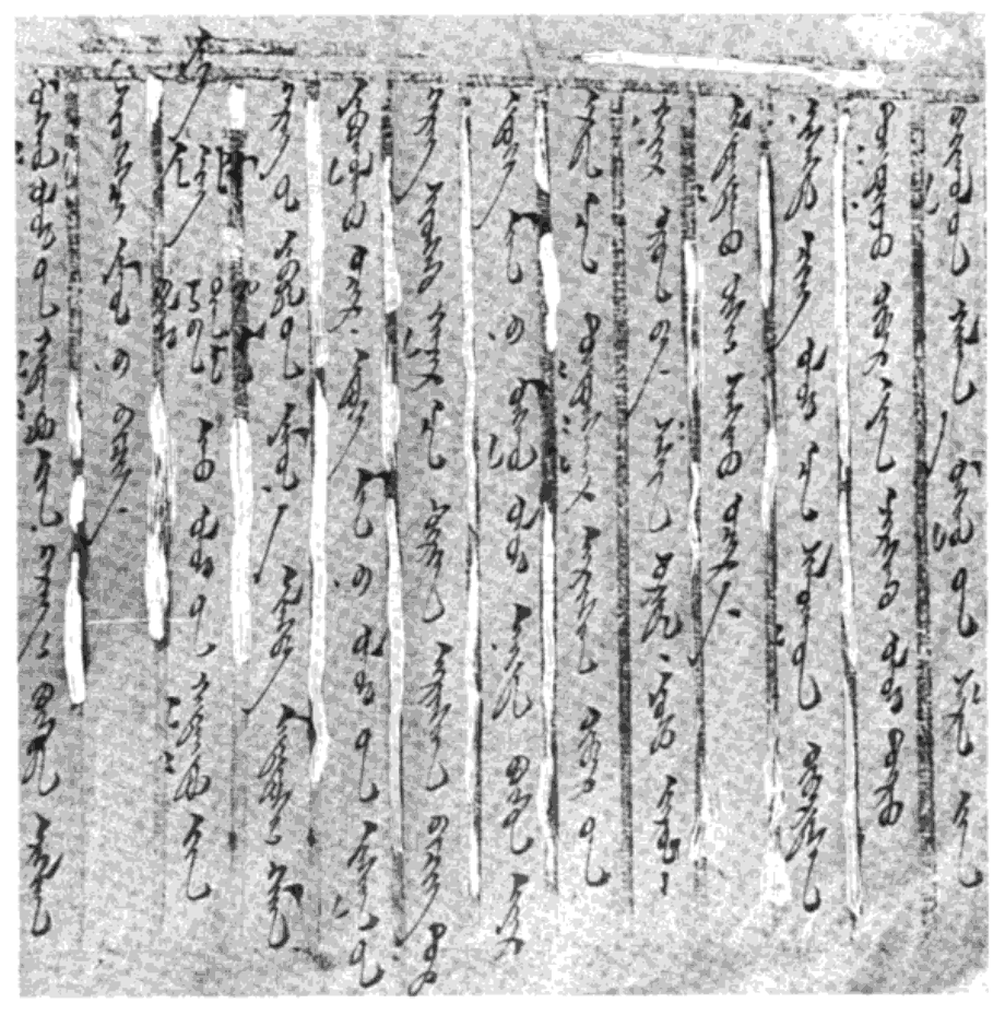 Letter by the Minister of Foreign Affairs of the Mongol Nation, informing the foreign ministeries of France, England, Germany, the USA, Belgium, Japan, Denmark, the Netherlands, and Austria of its national independence. Part 1